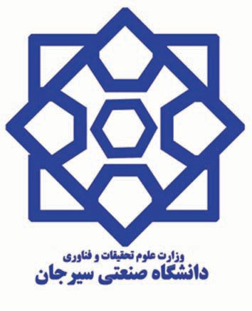 Sirjan University of Technology Logo